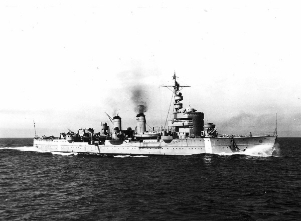 The Swedish cruiser HMS Fylgia during WW2.